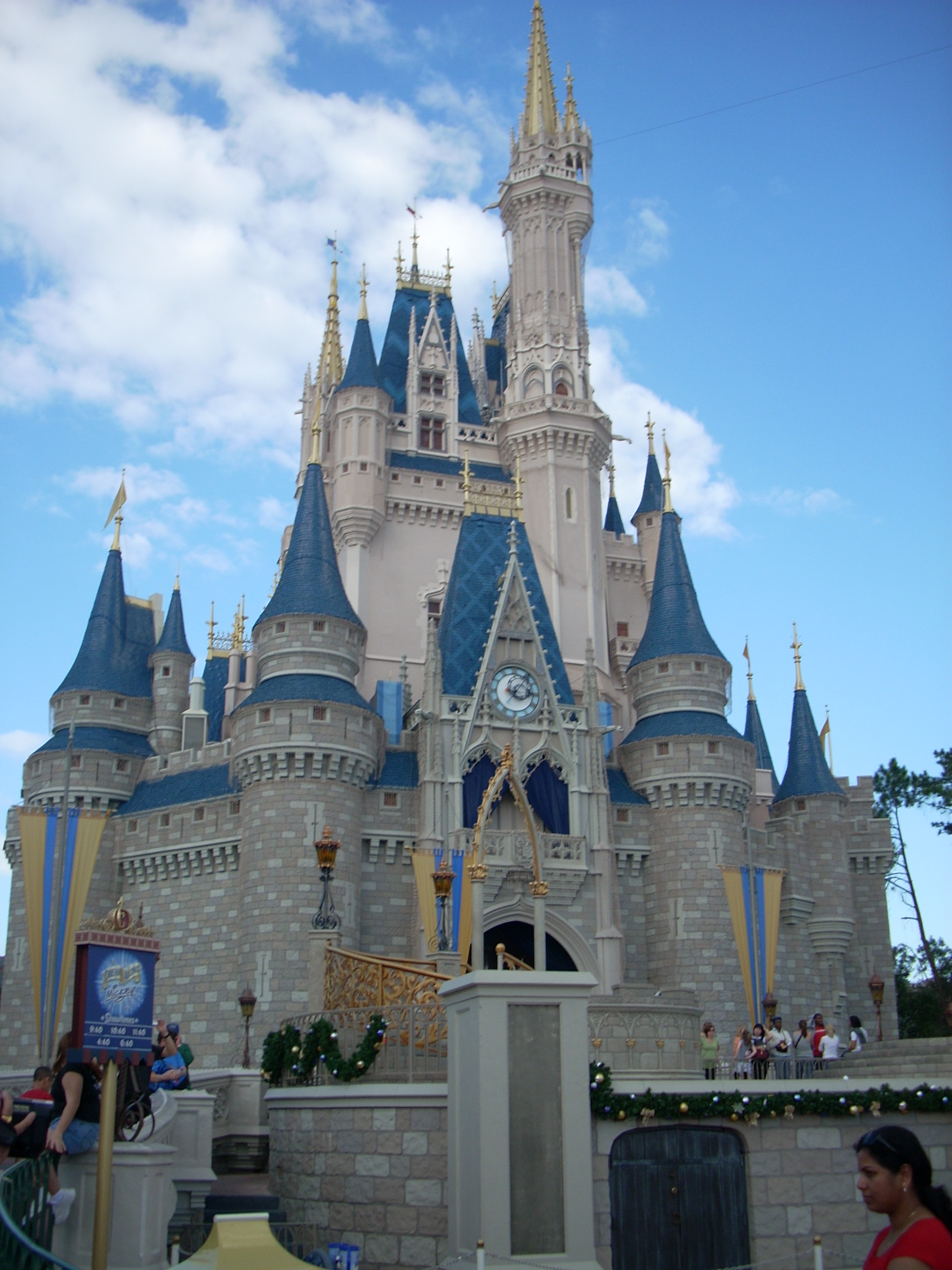 A picture of the Cinderella Castle at the Magic Kingdom of the Walt Disney World Resort in Lake Buena Vista, Florida taken from its steps.